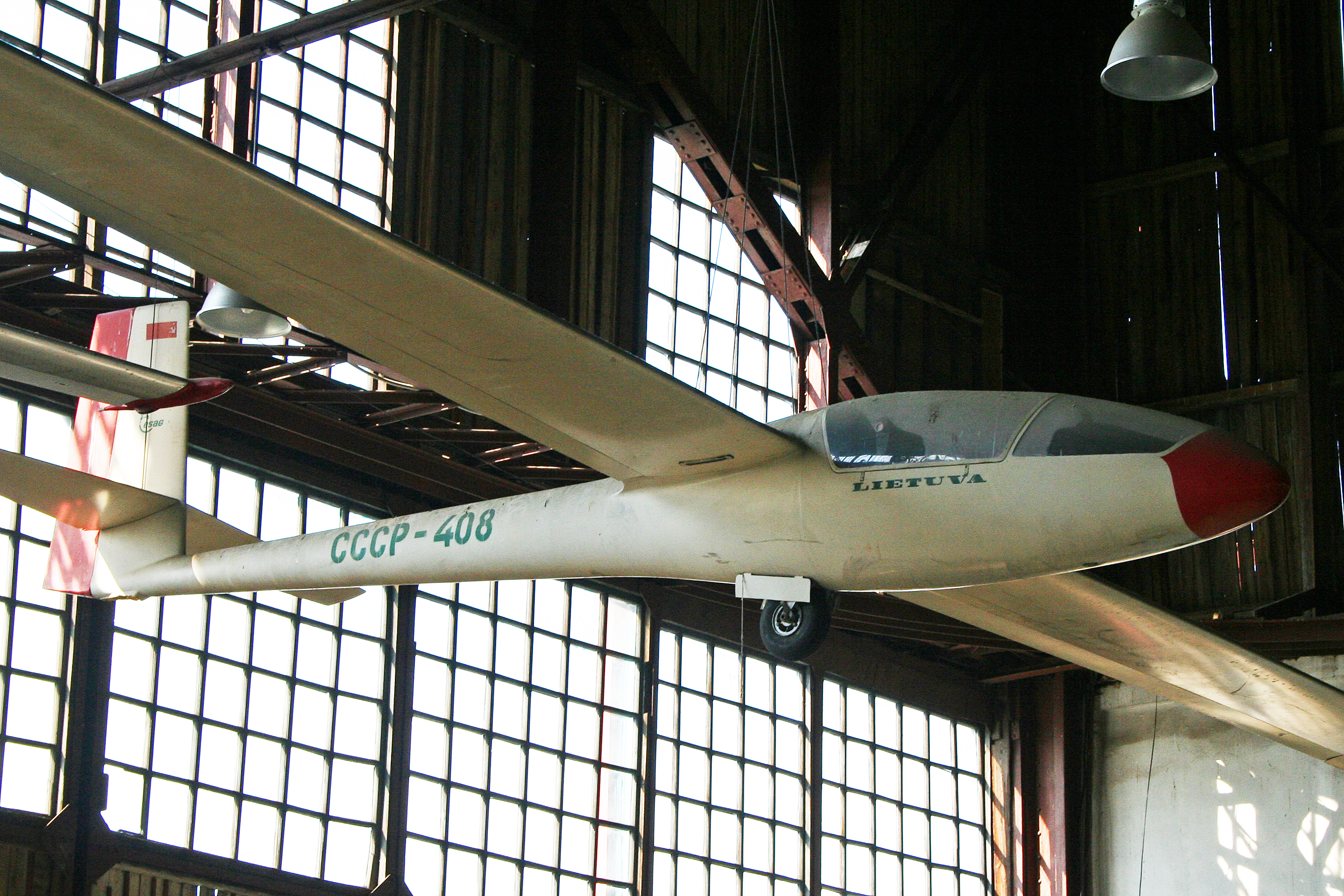 The LAK-9 first became known when it appeared at the 1976 World Gliding Championships held in Finland. The type name 'Lietuva' is the Russian for Lithuania. The 'M' variant was a modernised version which was built from the fourth batch onwards. This example is on display suspended in the original display hangar of the Russian Air Force Museum. Monino, Russia. 13-8-2012